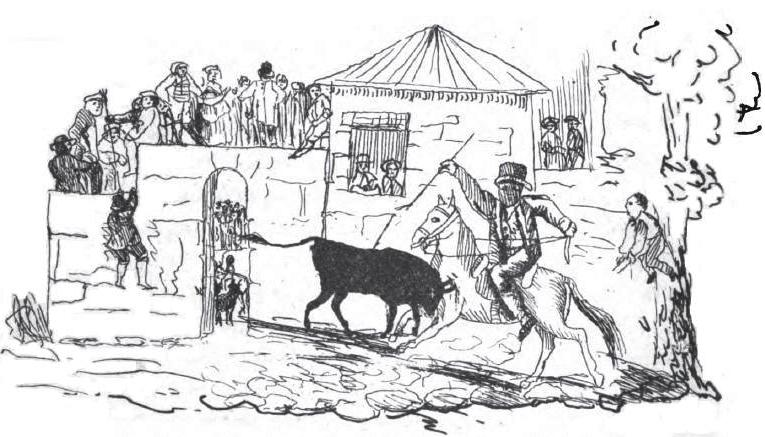 A drawing about Occitan traditions